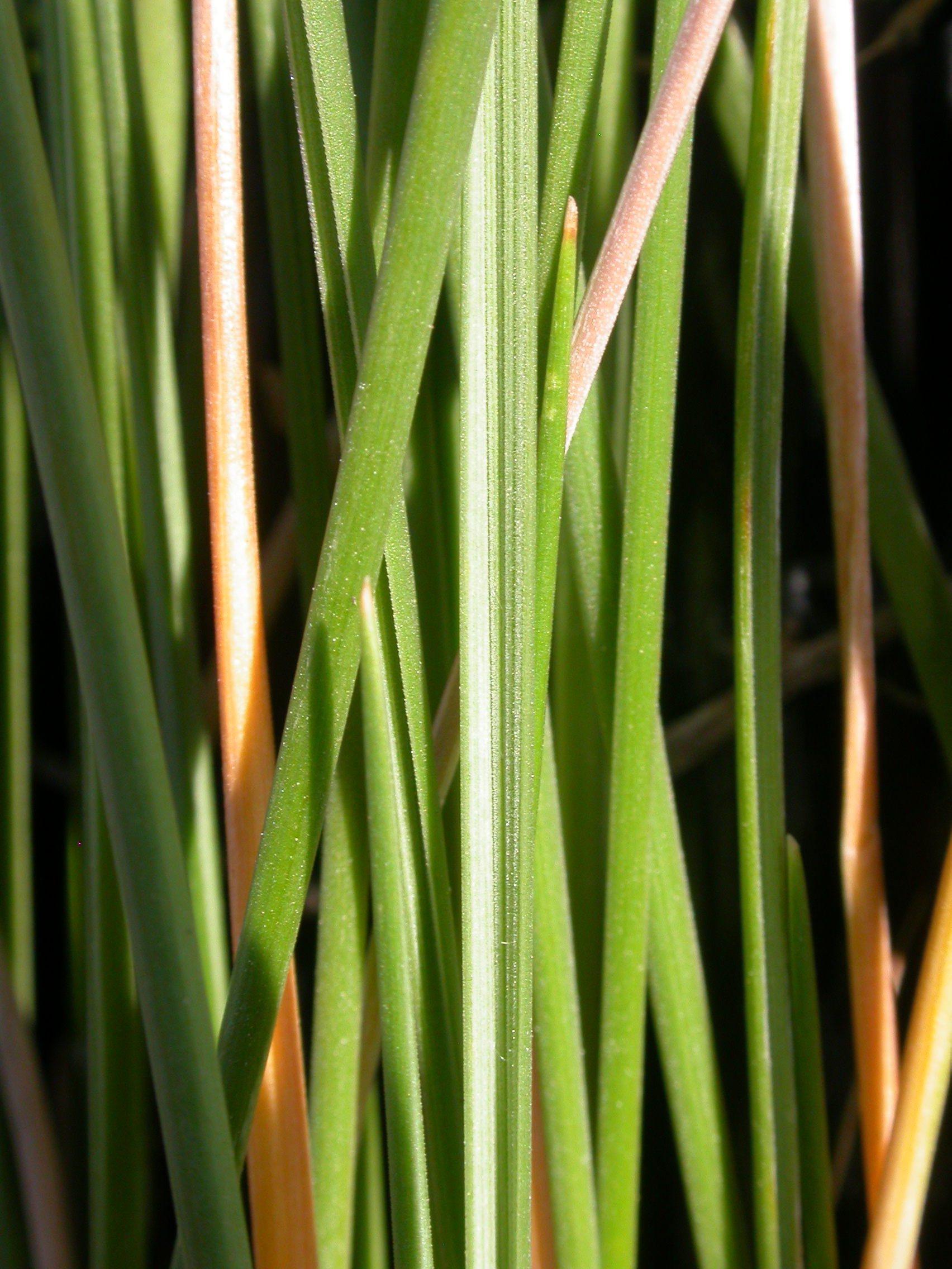 The leaf blades are scabrous and rough to the touch especially in the direction from tip to base; the leaf blades also tend to persist in a folded state and never display in a flat open fashion.